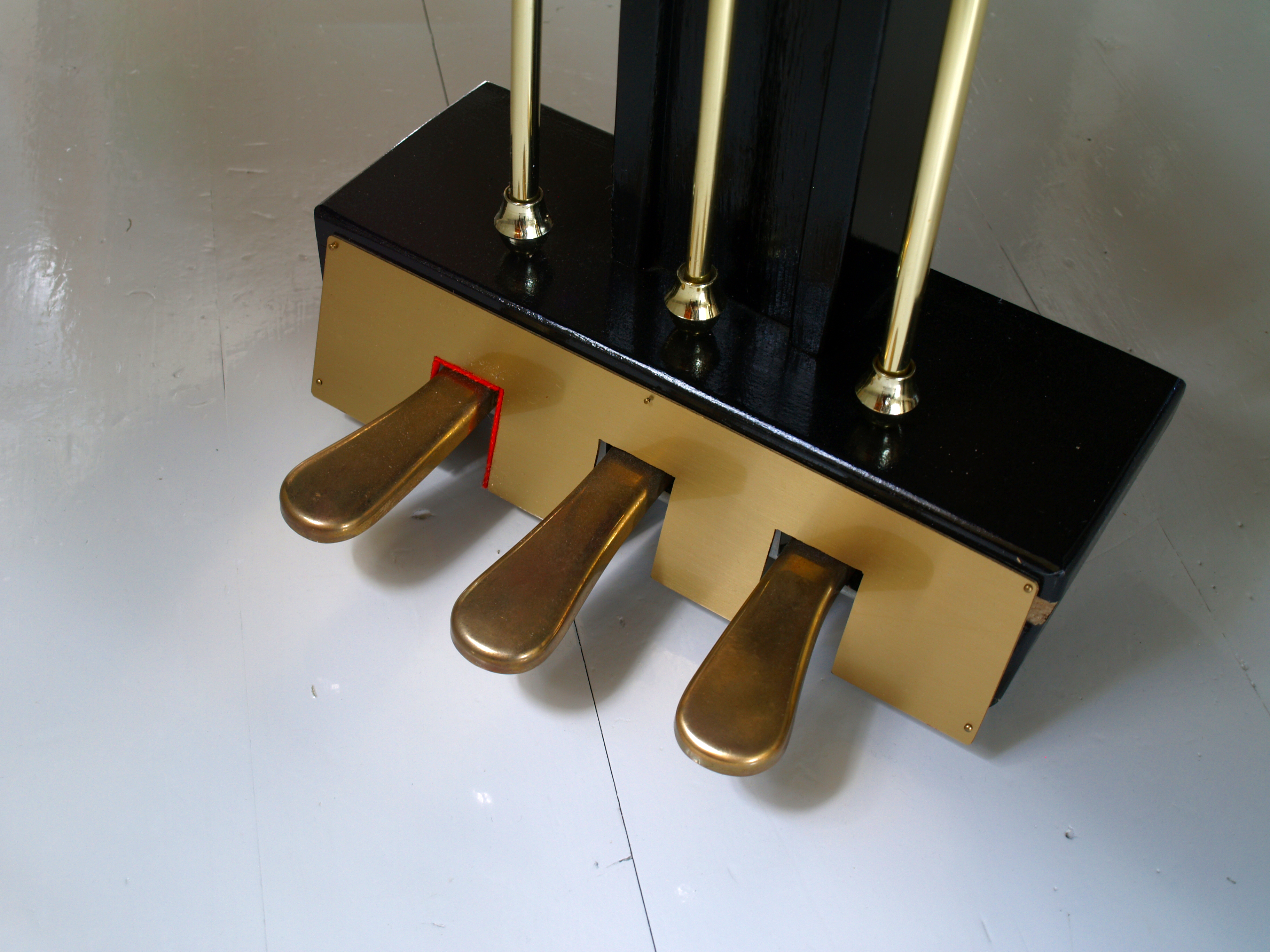 Yamaha CLP-130 piano pedals.